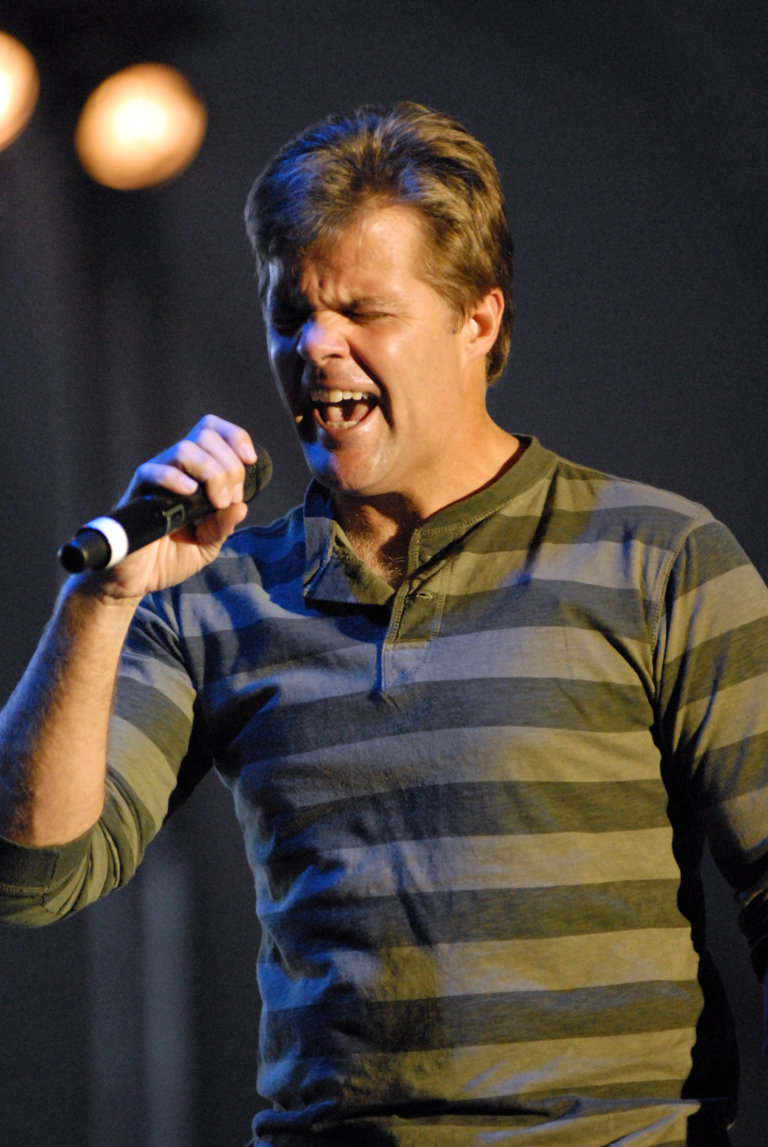 071012-N-6676S-489 VIRGINIA BEACH, Va. (Oct. 12, 2007) - Lonestar lead singer Richie McDonald belts out a tune at Naval Amphibious Base Little Creek in support of Fleet Week Hampton Roads. This was the last concert McDonald is scheduled to perform in the Hampton Roads area before he embarks on his solo career.